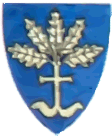 Coat of arms of Erlaa, Vienna